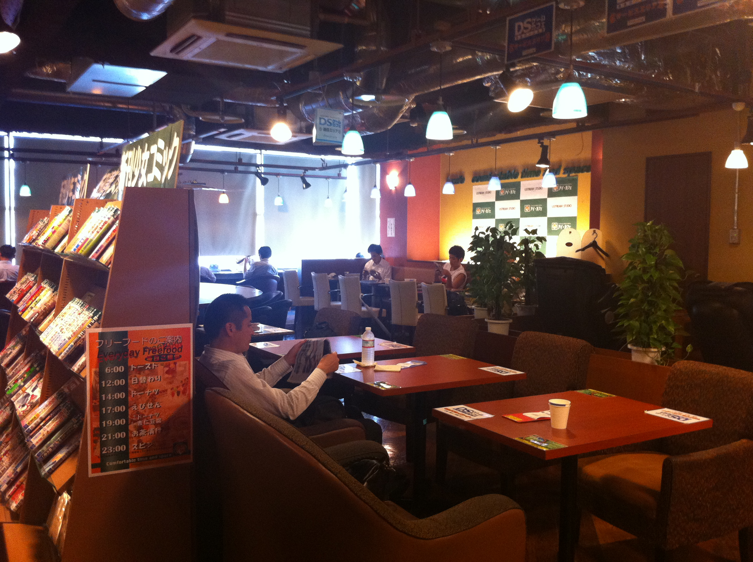 Cafe Area address: Shin-Suehiro Bldg., 3-14-7 Sotokanda, Chiyoda, Tokyo